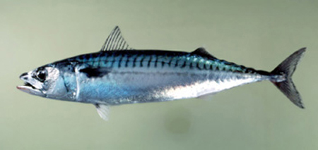 Atlantic mackerel are iridescent blue green above with a silvery white underbelly. They have twenty to thirty wavy black bars that run across the top half of their body, and a narrow dark streak runs along each side from pectoral to tail fin below the bars. Their distinctive coloring quickly begins to fade after the fish dies.